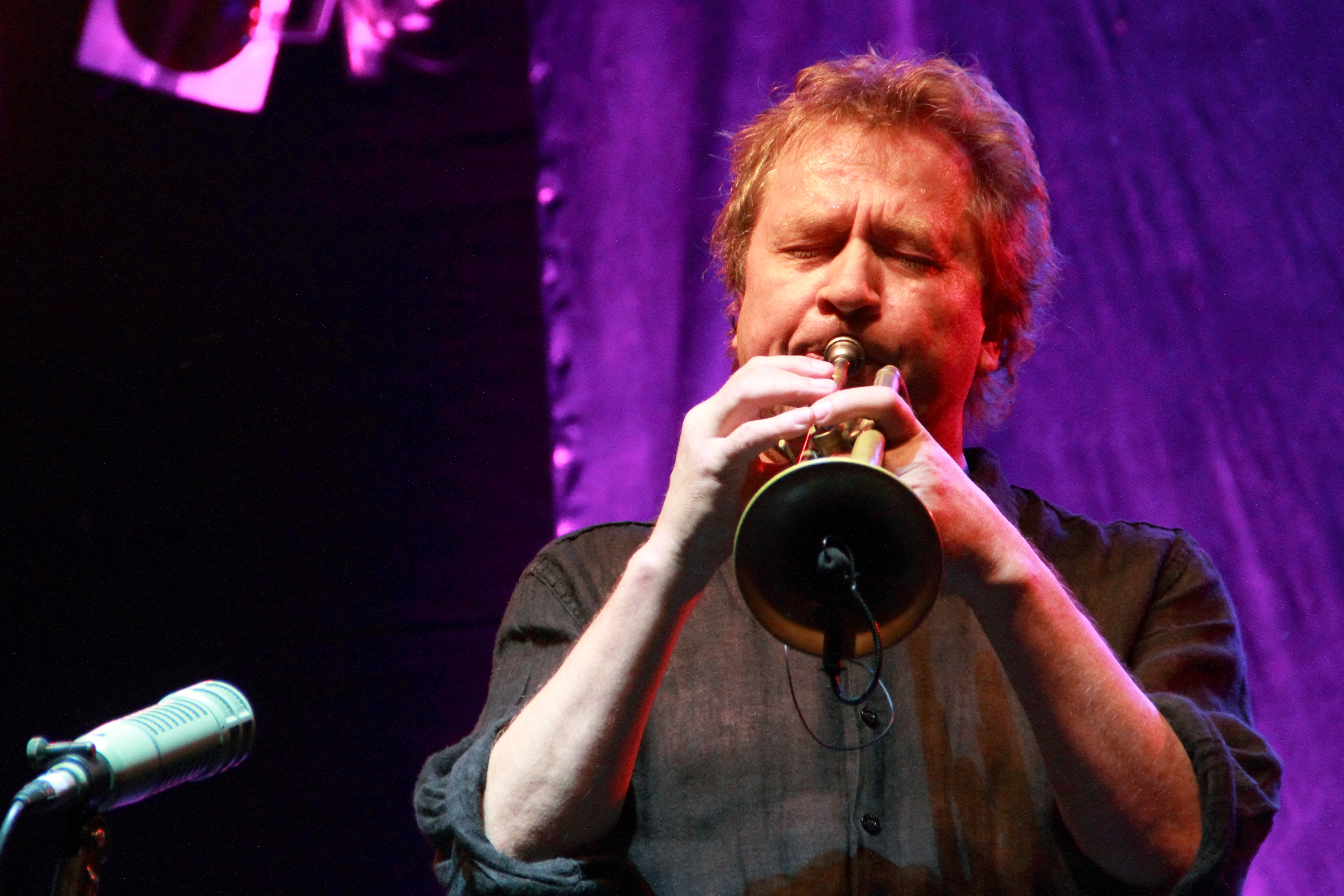 Nils Petter Molvær meets Sly (Dunbar) & Robbie (Shakespeare) at TFF Rudolstadt, 2015.